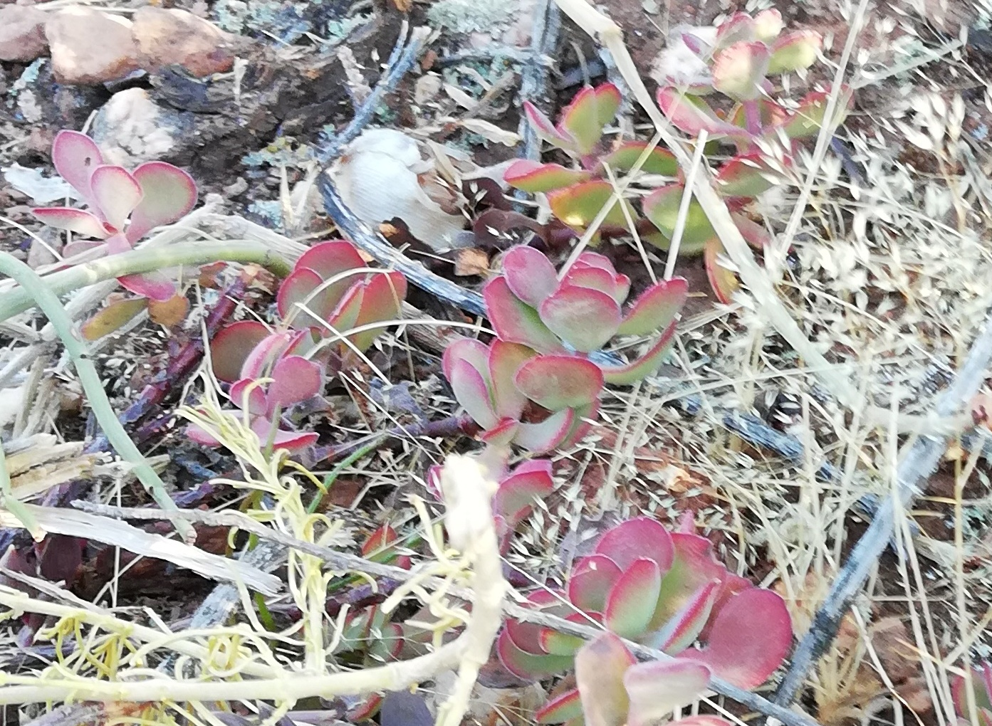 Crassula atropurpurea var anomala - Worcester